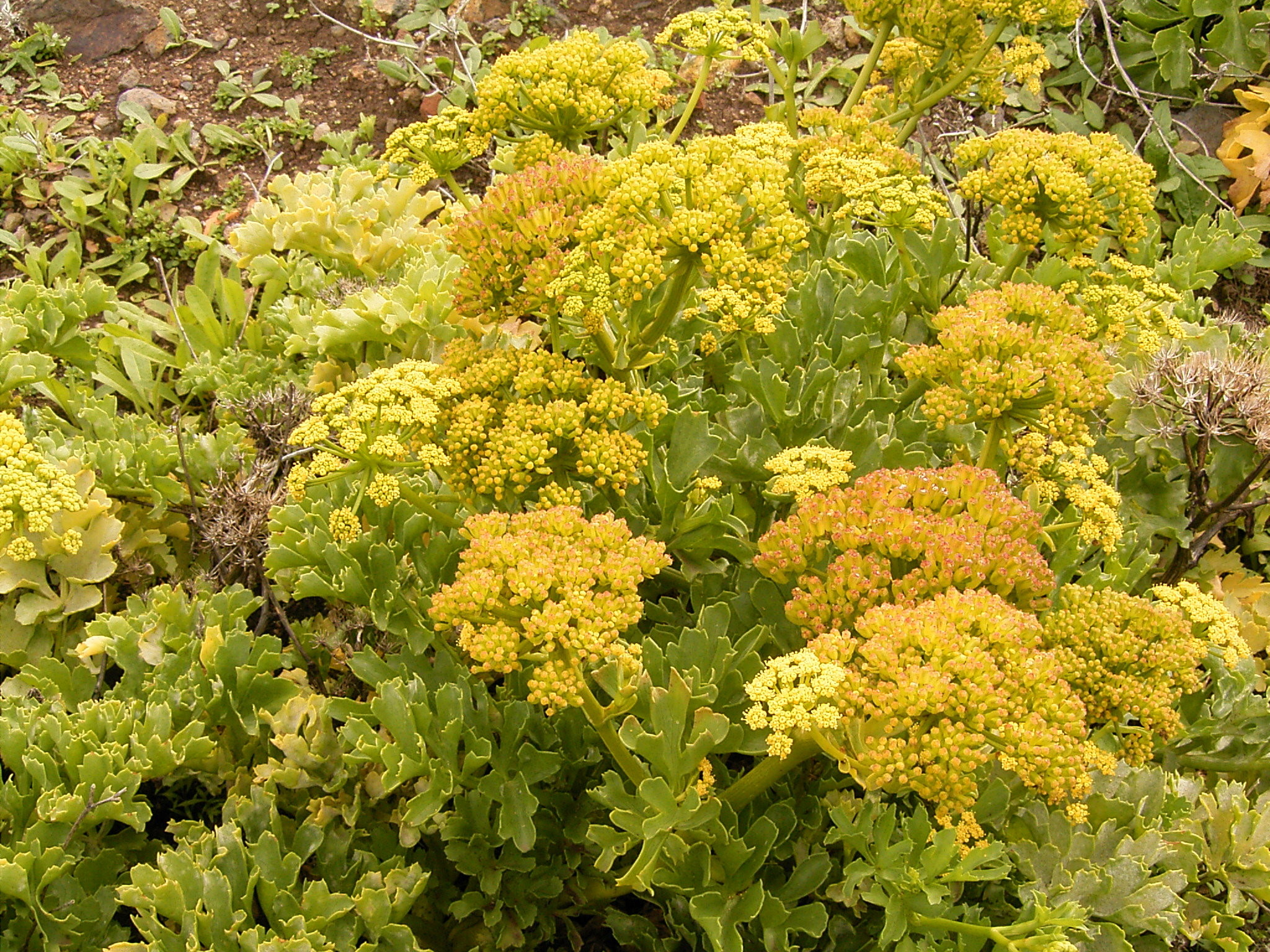 Astydamia latifolia growing in San Andrés y Sauces, La Palma, Canary Islands